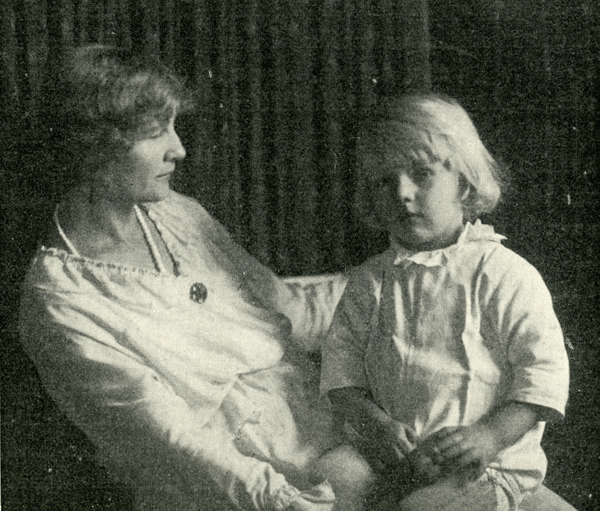 Ester and her son, Putte